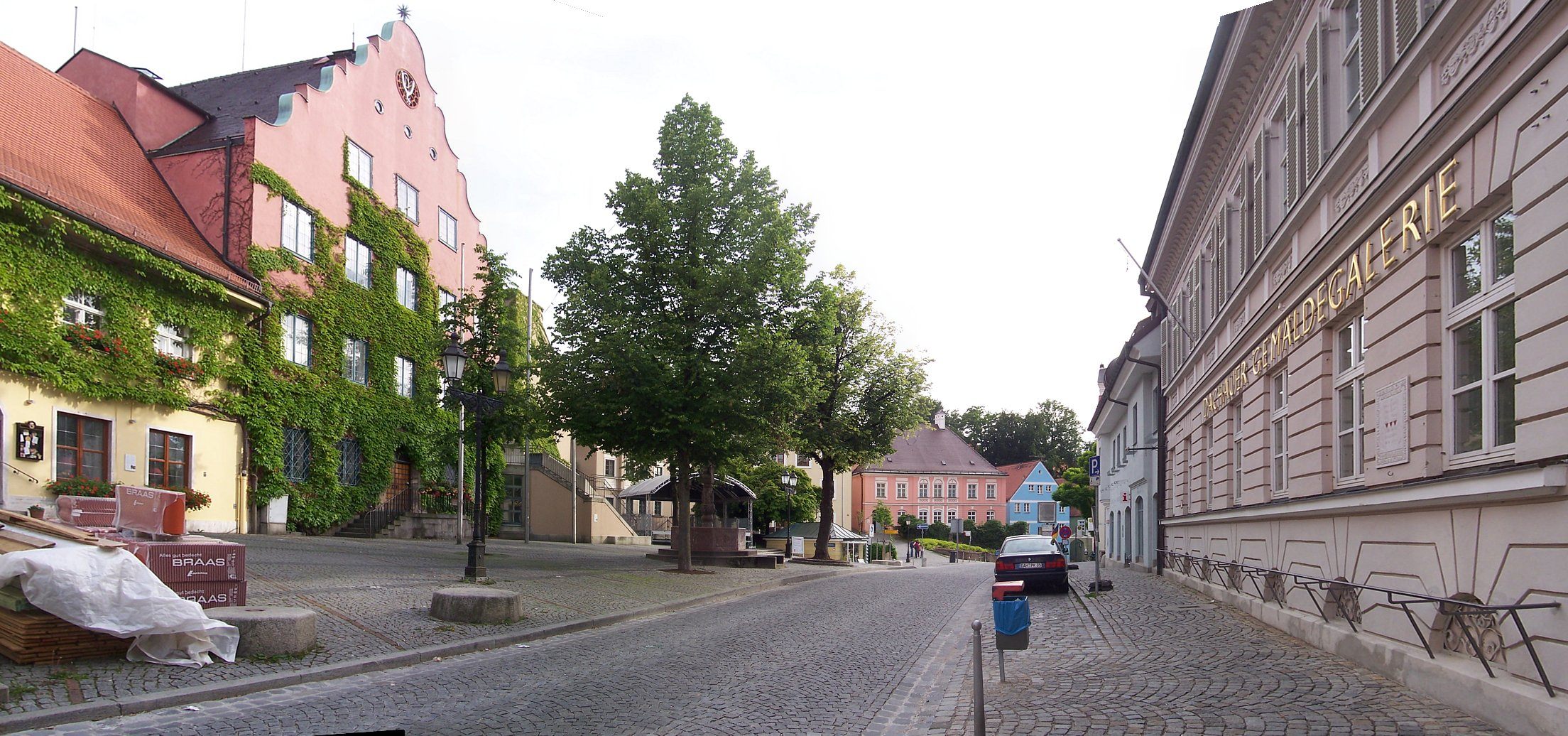 Konrad-Anenauer Straße, old town area Dachau.